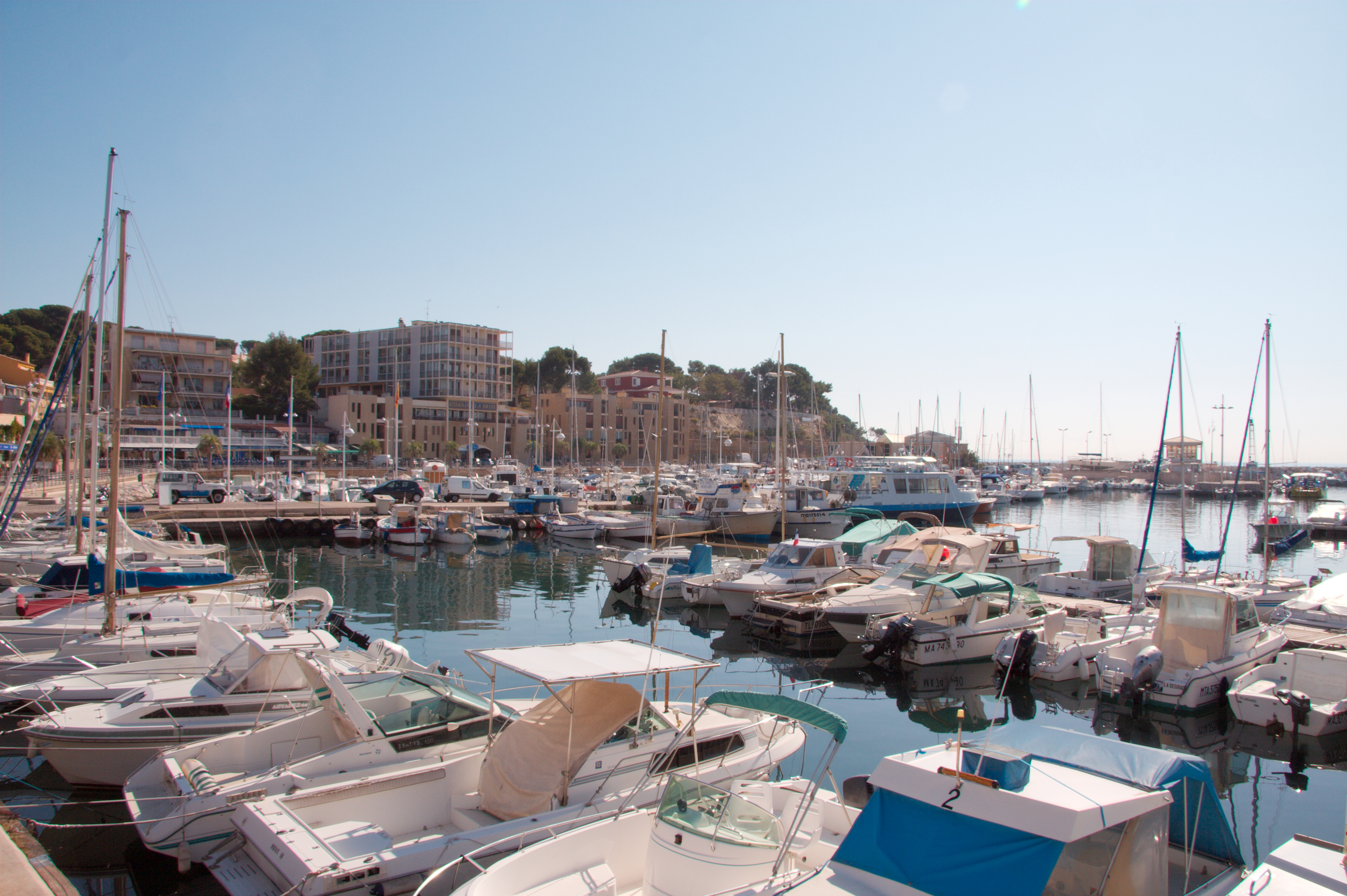 Carry-le-Rouet (Bouches-du-Rhône, France)